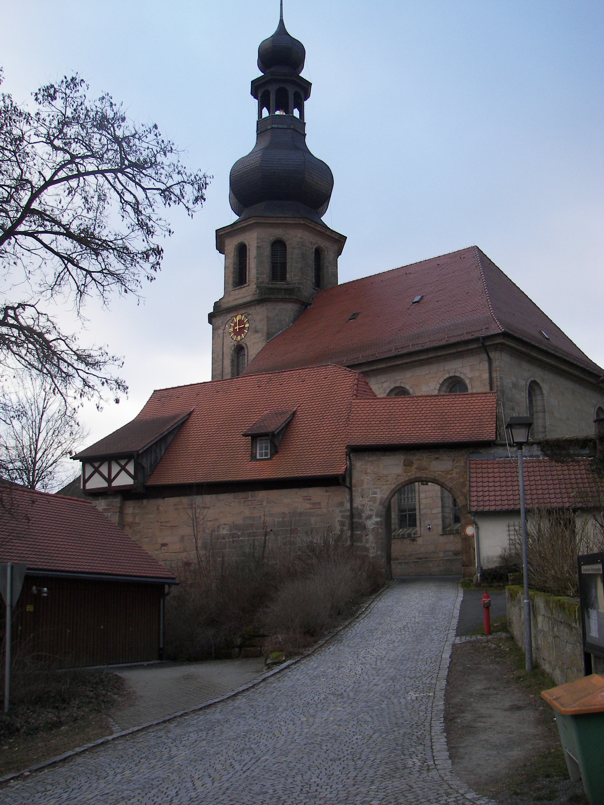 St. Johannes Church in Trebgast